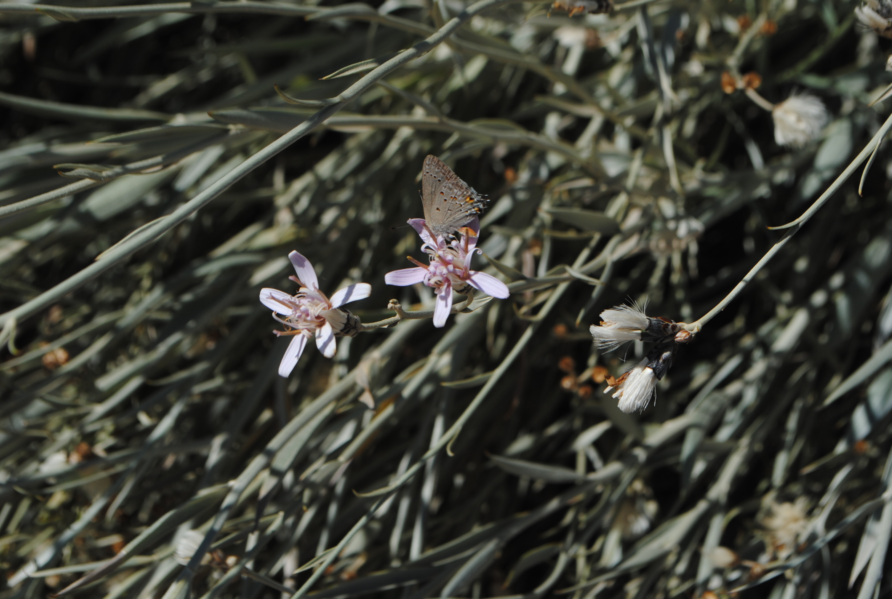 Hyalis argentea flowers, Rio Negro province, Argentina